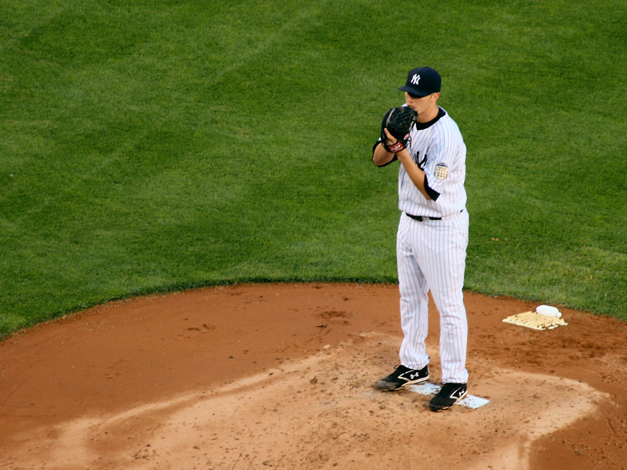 Photograph of Phil Hughes taken on April 29, 2008 at Yankee Stadium. 04:50, 1 May 2008 . . Mandalatv . . 1,272×954 (691 KB)